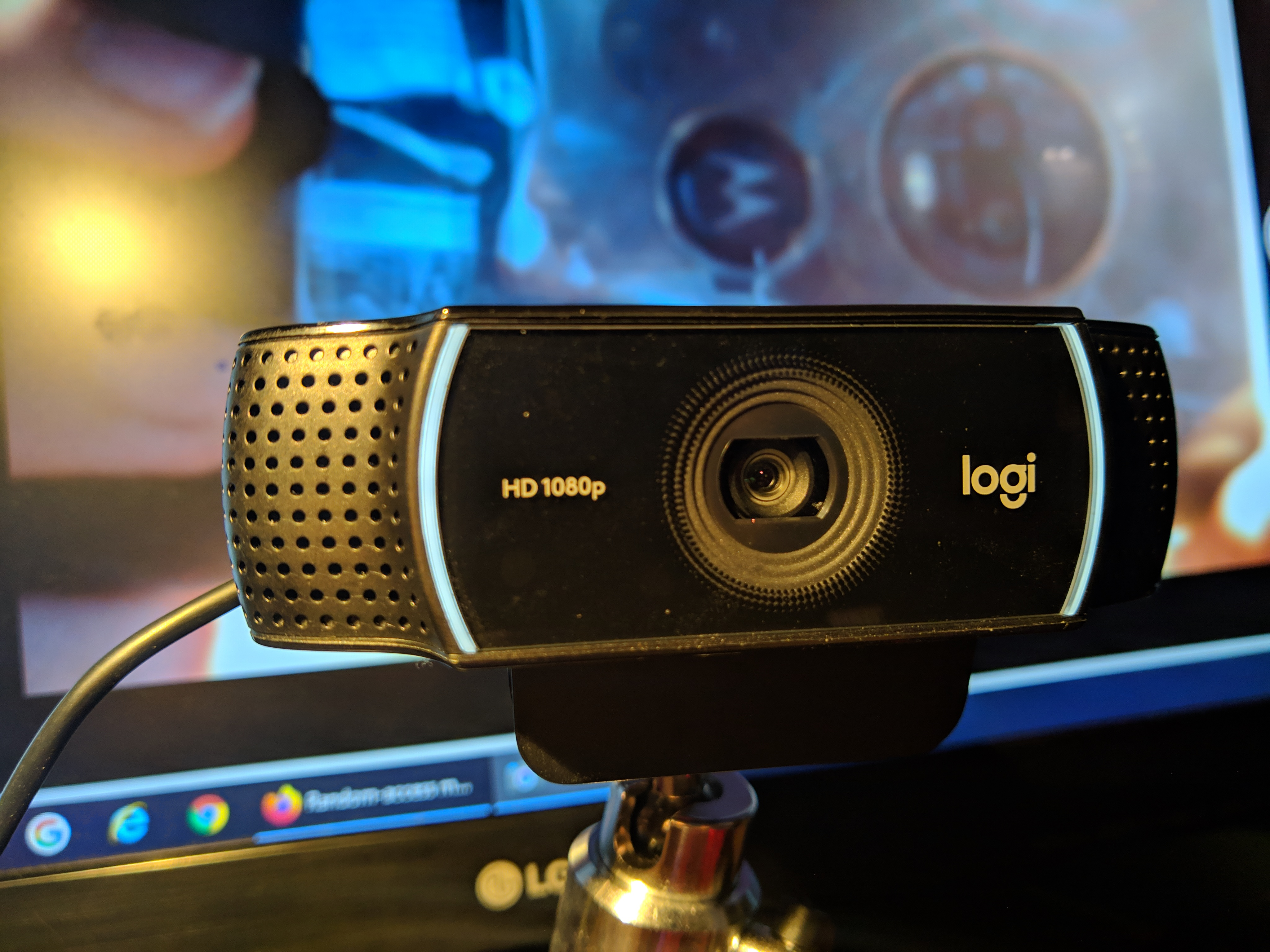 Modern expensive webcam mainly made for streaming and professional video conferencing